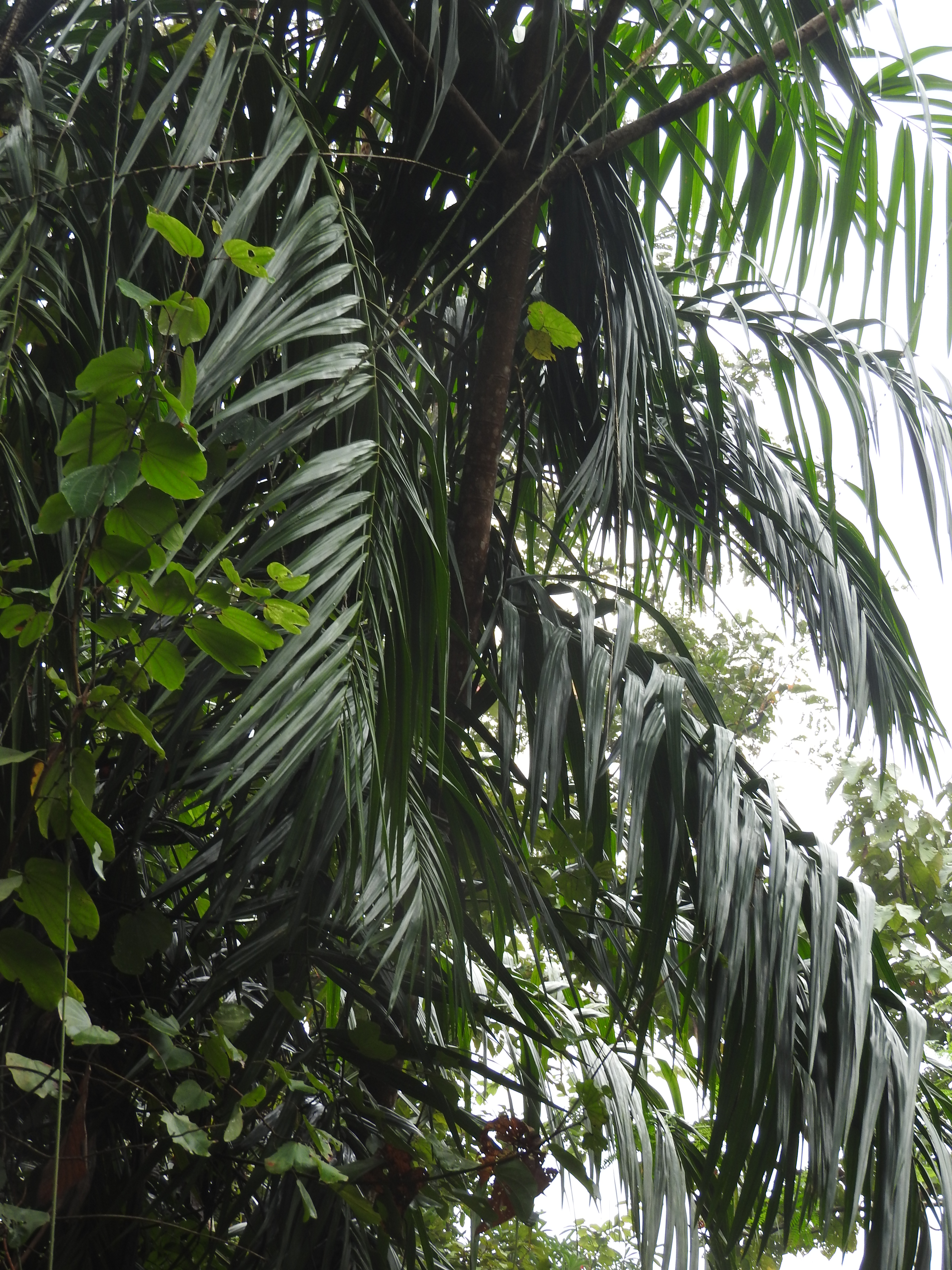 Arecaceae-climbing palms,grows horizontally.